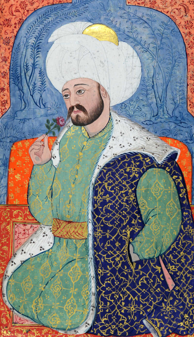 Ottoman miniature depicting Mehmed I, Sultan of the Ottoman Empire from 1413 to 1421. The miniature comes from a 16th-century manuscript illustrating the dynasty, and is currently preserved in the Istanbul University Library (MS Yildiz 2653, fol. 261).